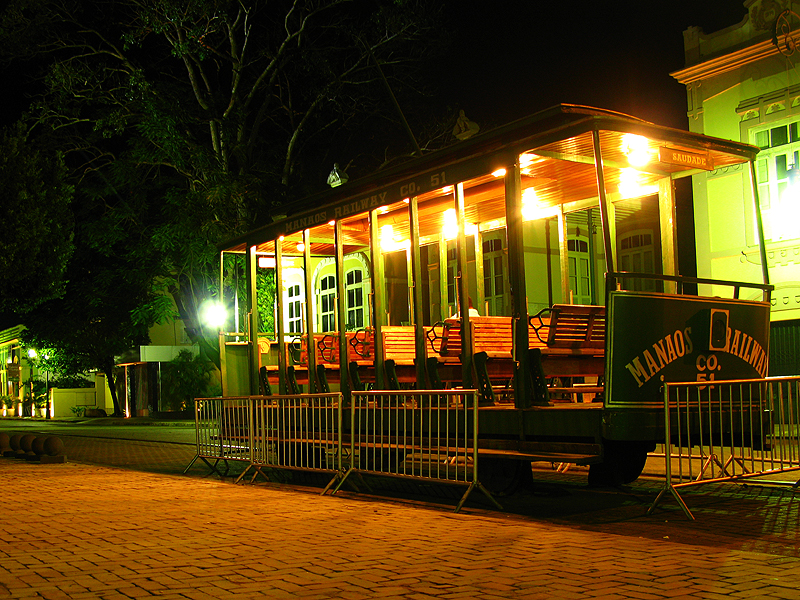 Manaus Railway